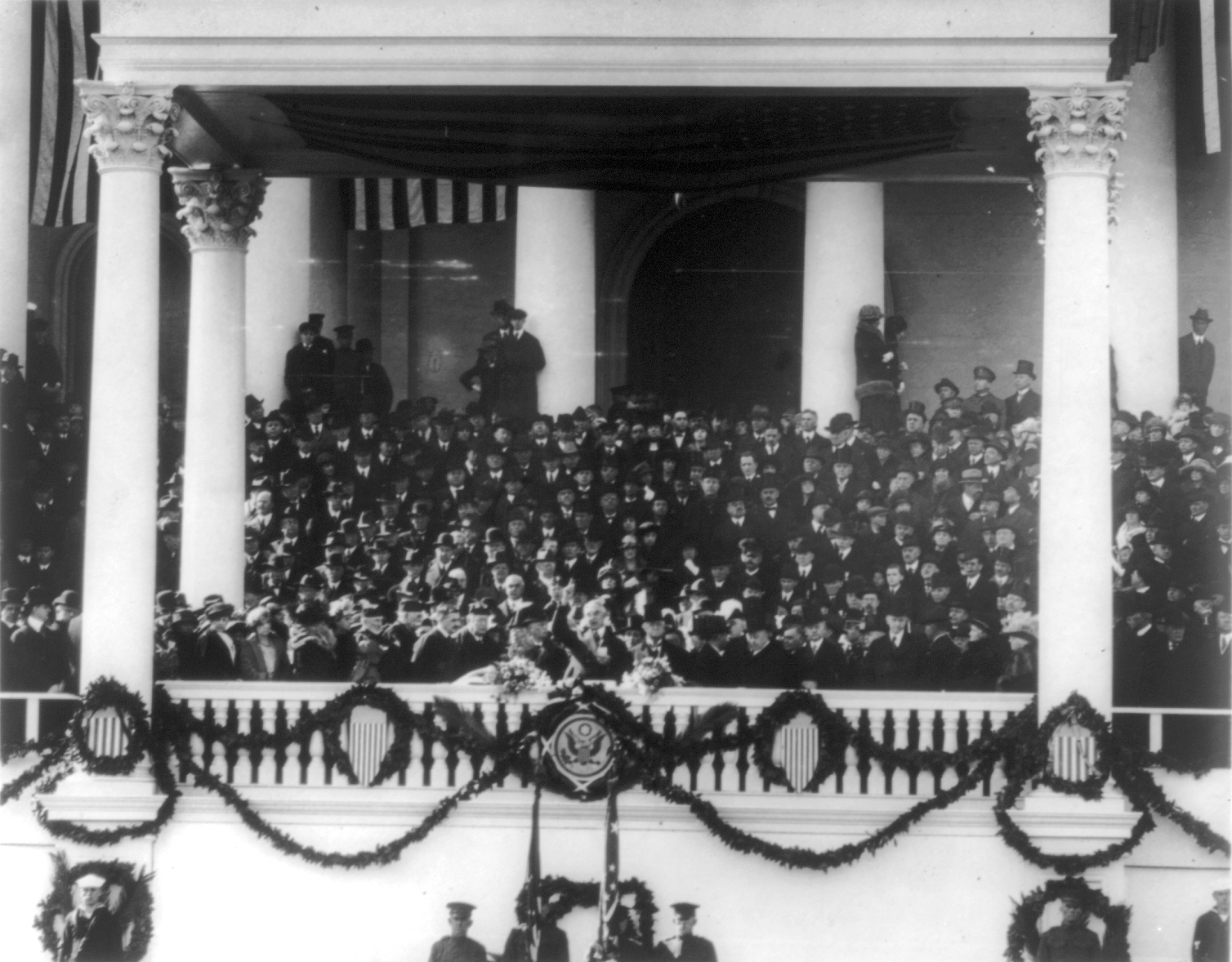 Warren G. Harding, U.S. President, making inaugural speech.